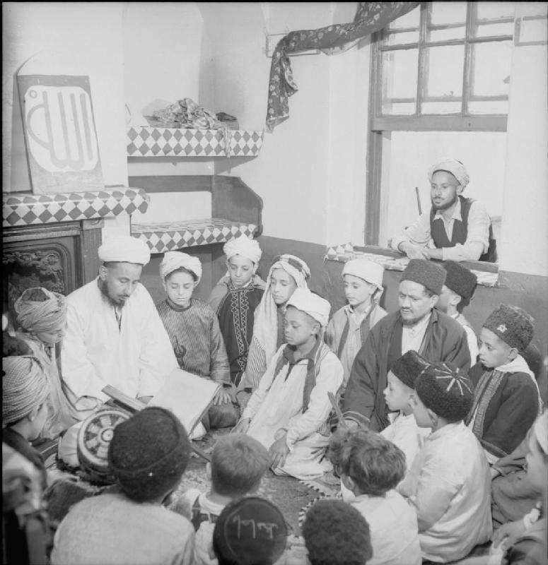 Muslim Community- Everyday Life in Butetown, Cardiff, Wales, UK, 1943 Young Muslim boys listen to Kaid Shef as he reads to them from the Koran in a room in the old Mosque in Butetown. Kaid is an ex-seaman, having being invalided out after being torpedoed during the Norway campaign. Another teacher, Abdul Yhia, is a retired seamen and air raid warden. He can be seen second from right, just below the window, through which a member of the Mosque staff is looking.